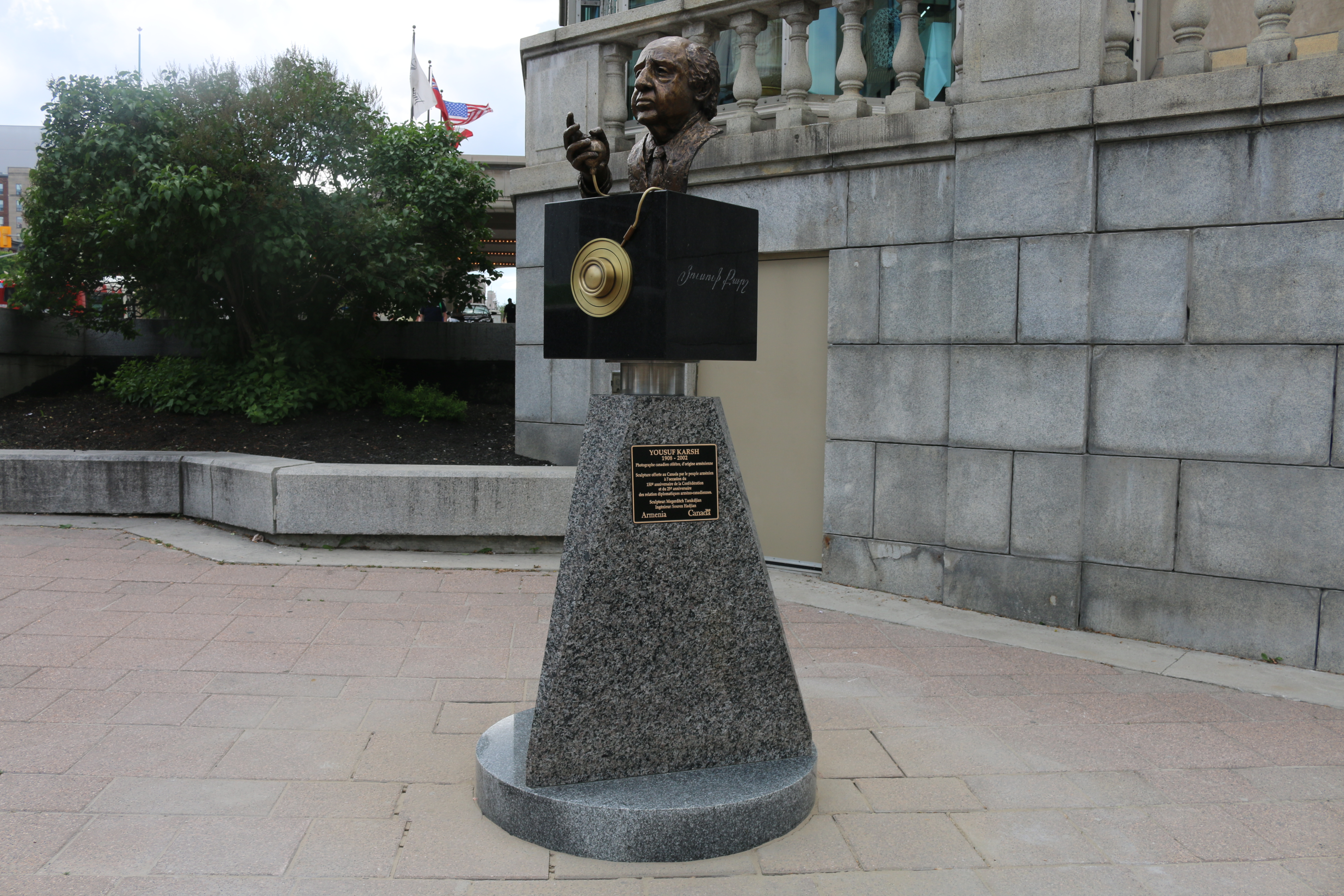 Bust of world renowned Armenian-Canadian photographer, Yousuf Karsh in Ottawa